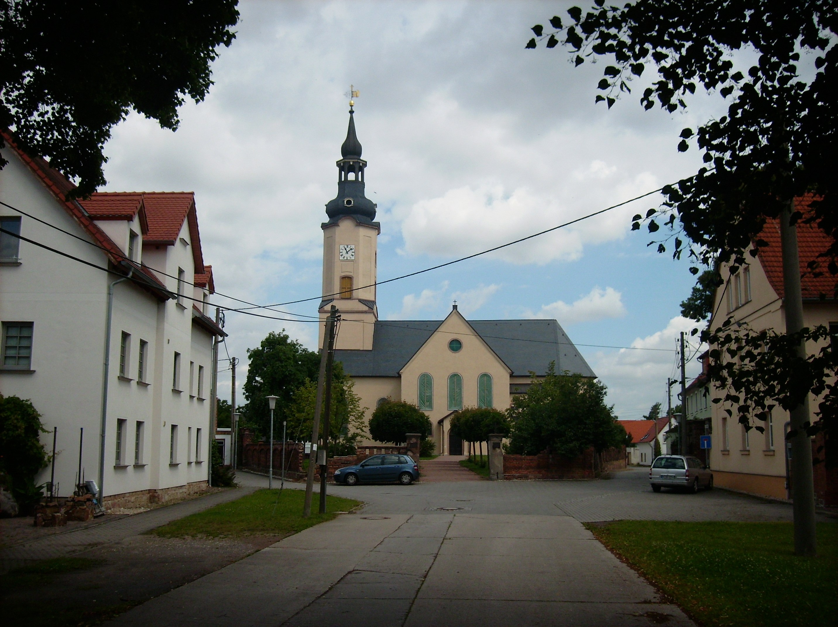 Kirchstrasse with the church St. Mary in Klepzig (Landsberg, district of Saalekreis, Saxony-Anhalt)